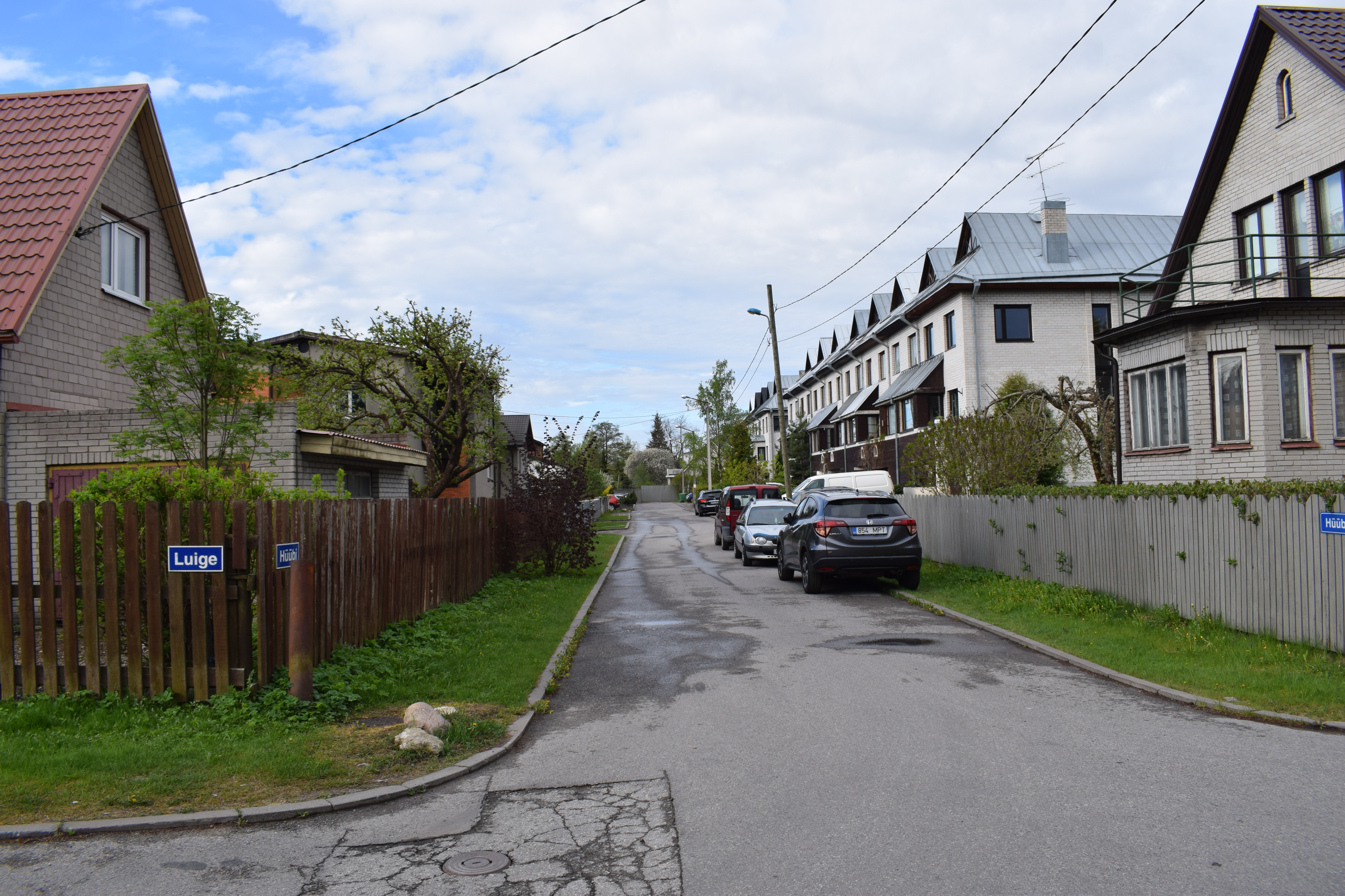 Hüübi street